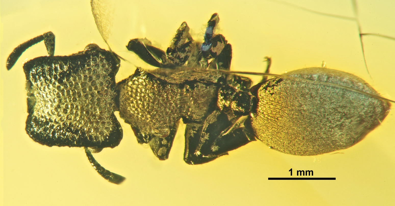 Dorsal view of the Cephalotes serratus holotype worker. Dominican amber, Burdigalian; Dominican Republic, Hispaniola Staatliches Museum fur Naturkunde, specimen SMNSDO5694